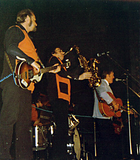 Bill Haley and band at a concert on May 14 1974 concert in Liège. Haley is in the blue jacket on the right and Rudy Pompilli in the middle.